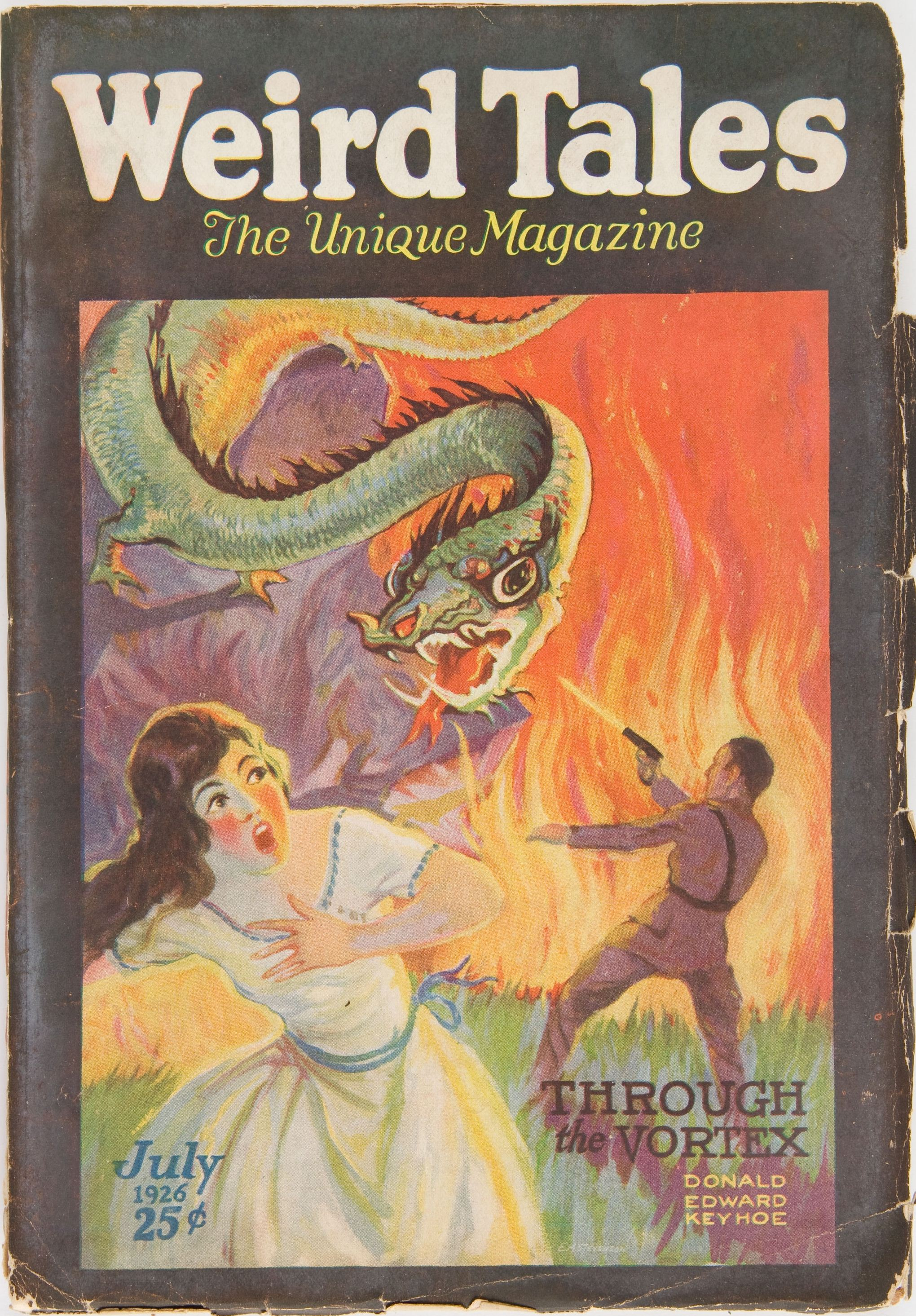 Cover of the pulp magazine Weird Tales (July 1926, vol. X, no. X) featuring Through the Vortex by Donald Edward Keyhoe.